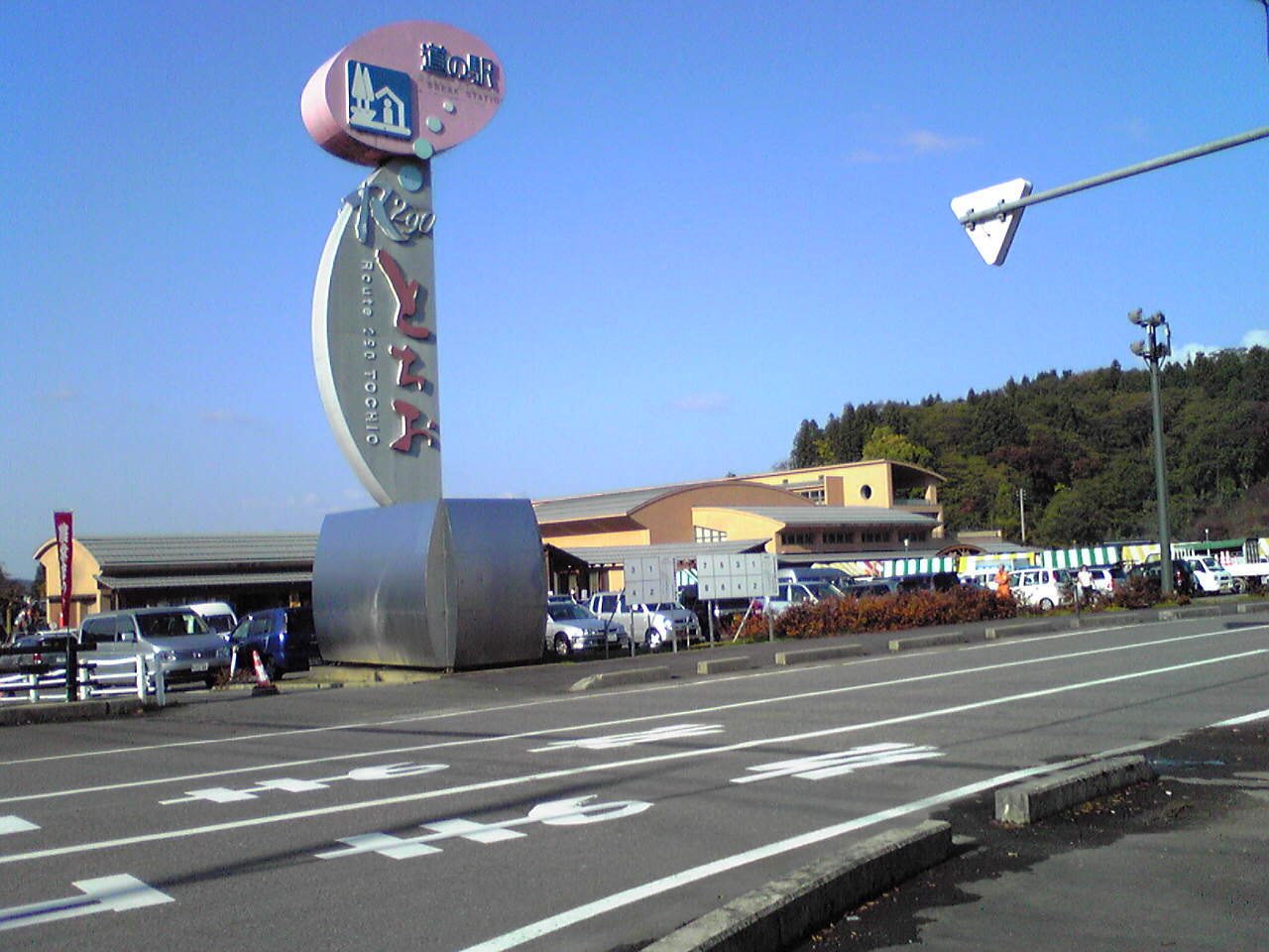 ROUTE 290 TOCHIO, Roadside Station, Niigata, Japan.